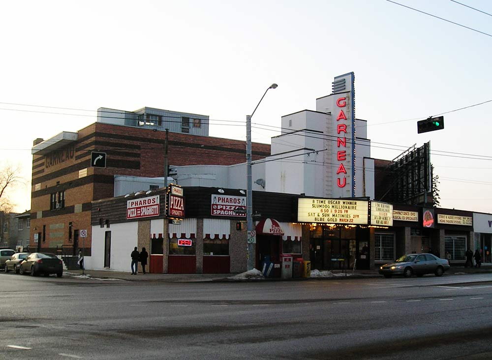 Garneau theater at dusk